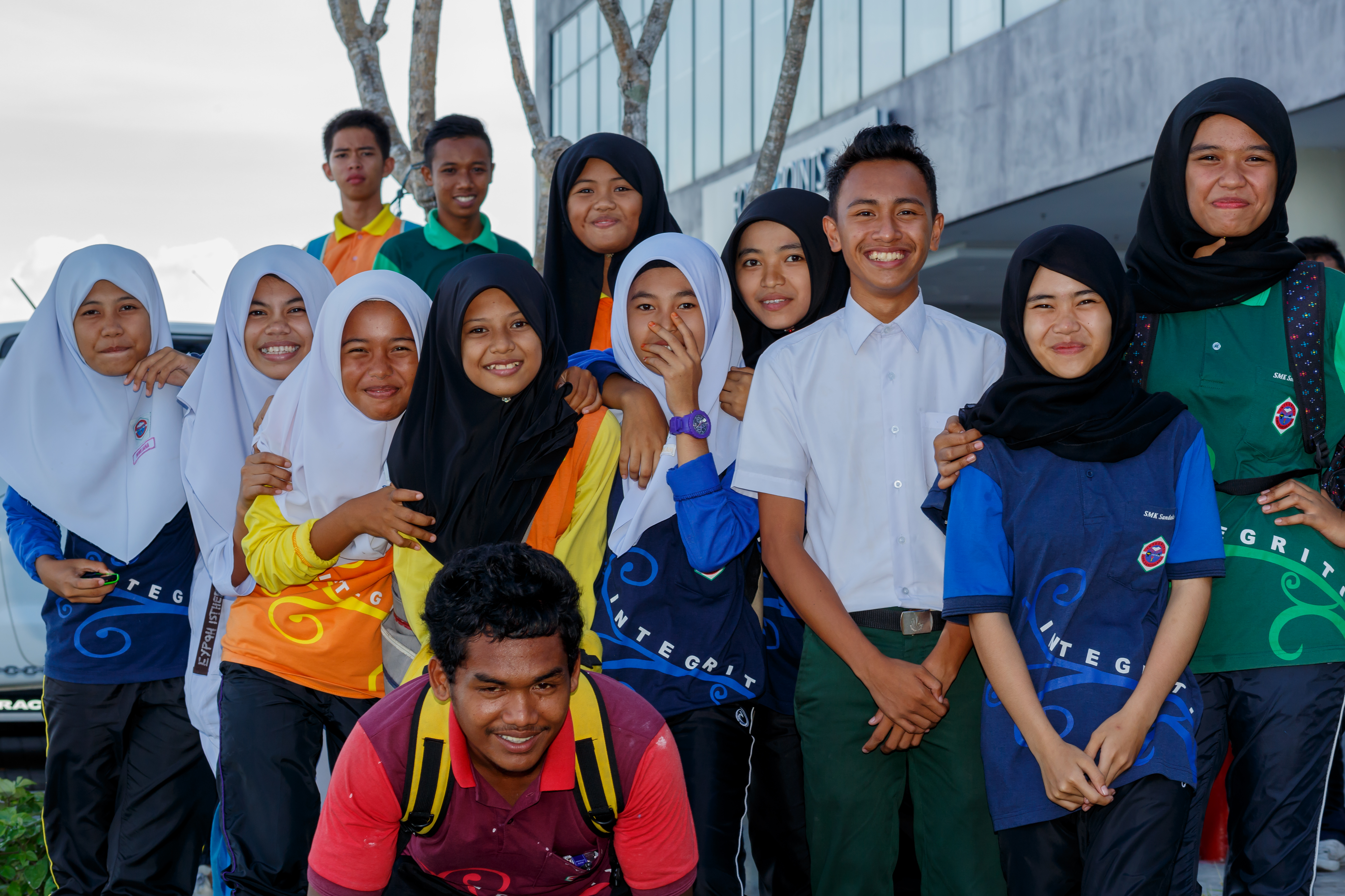 Sandakan, Sabah: Some school girls and boys from secondary school in their distinctive school uniforms posing for the photographer at Harbour Square